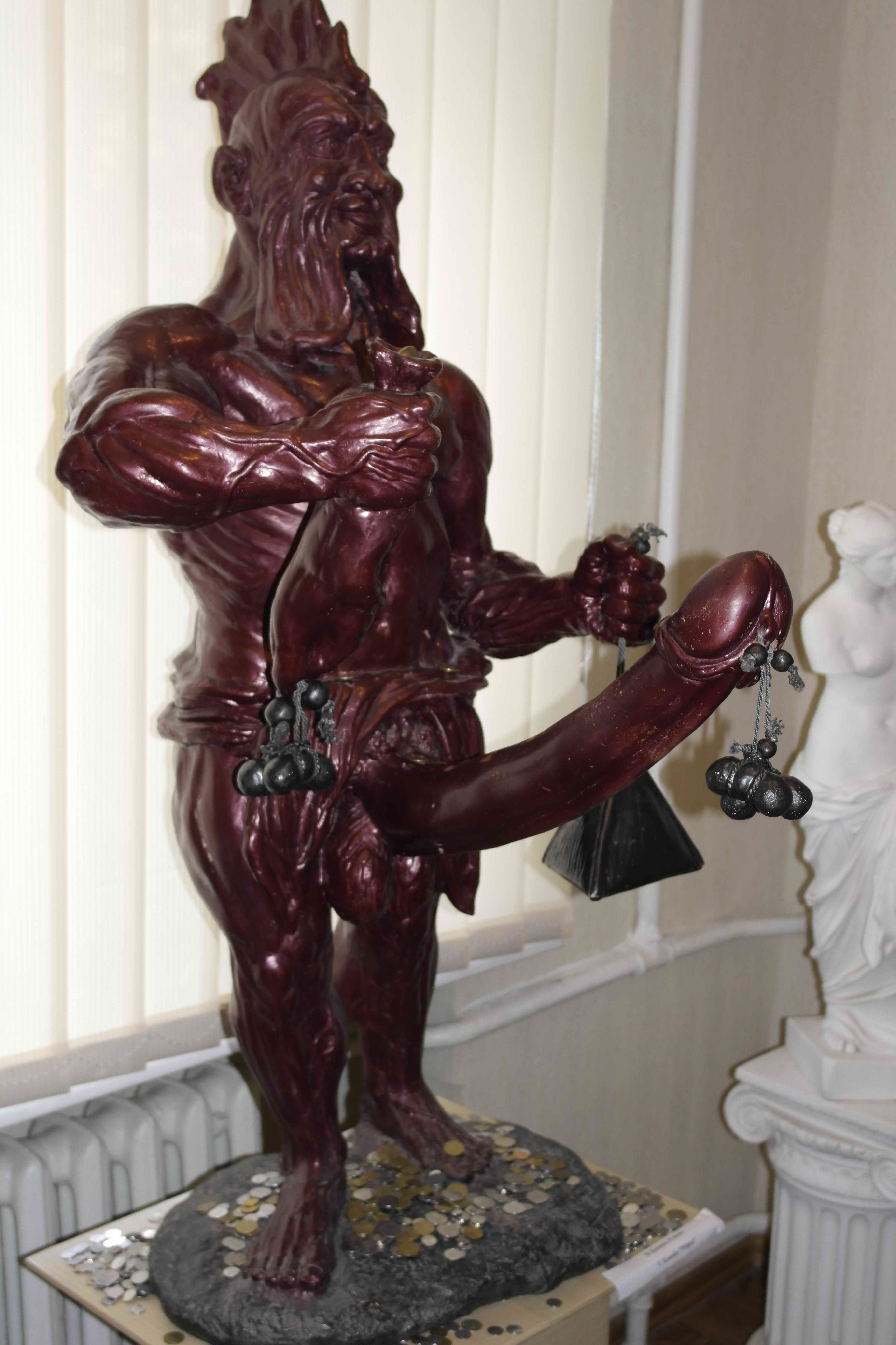 Statue of Priapus at the entrance to museum of sex an world sexual cultures in Kharkiv